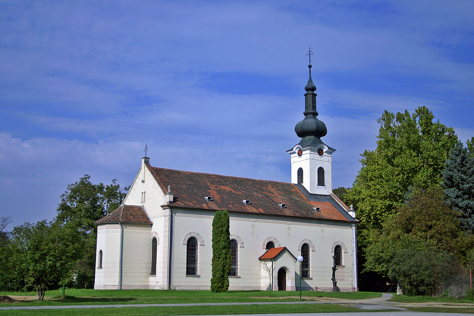 Evangeličanska cerkev, Puconci. Evangelical church, Puconci. Evangelische Kirche, Puconci.